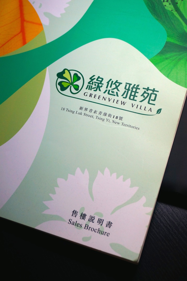 Sales Brochure of Greenview Villa, printed in late 2012.